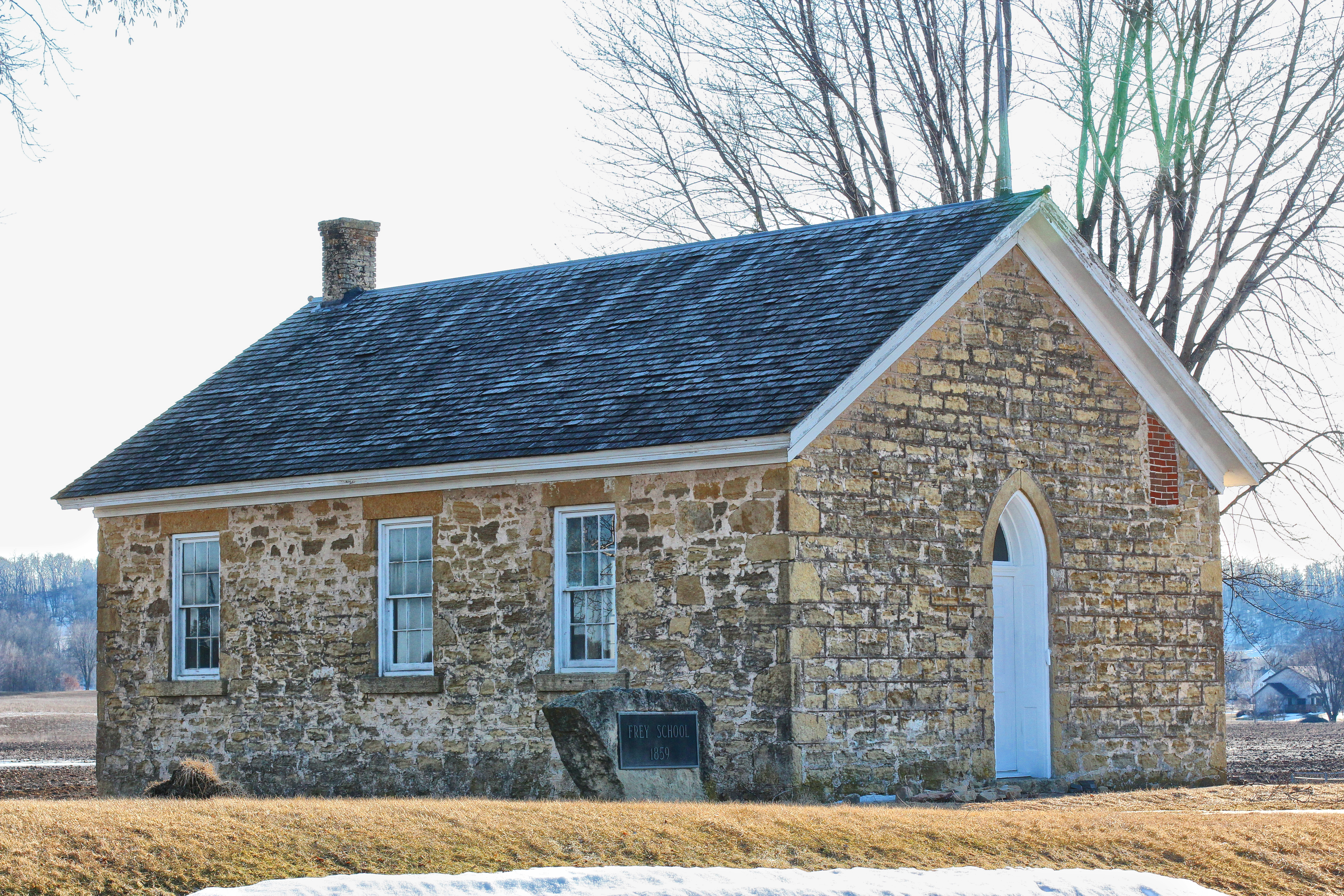 Frey School, 8847 County Road Y Roxbury